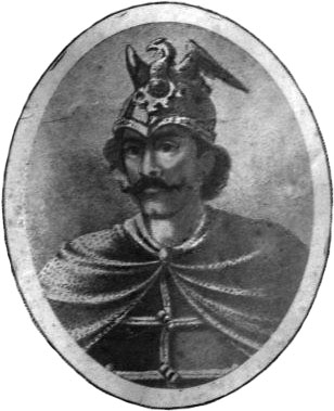 Pavle, Prince of the Serbs 917–921.